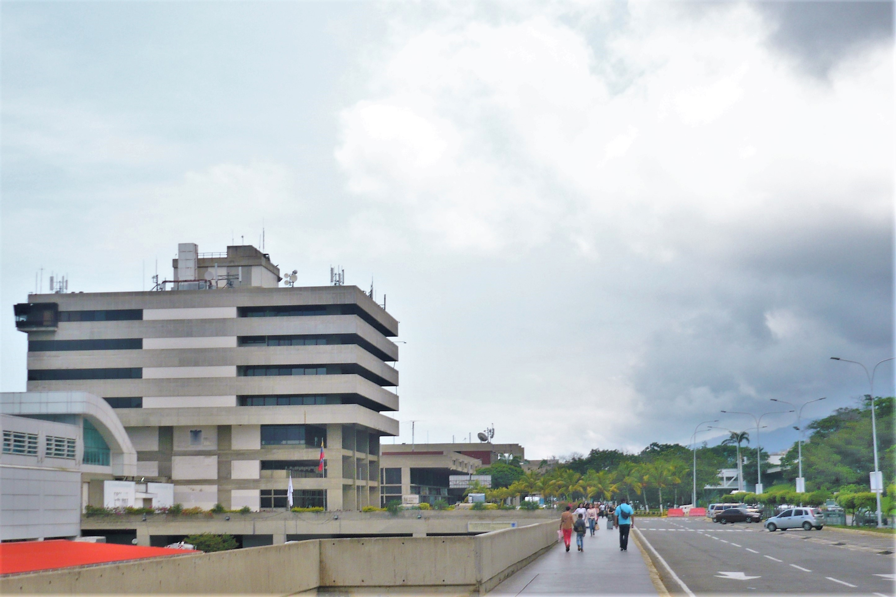 Main building of Maiquetía Simón Bolívar International Airport, headquarters of the Maiquetía International Airport Institute (IAIM)